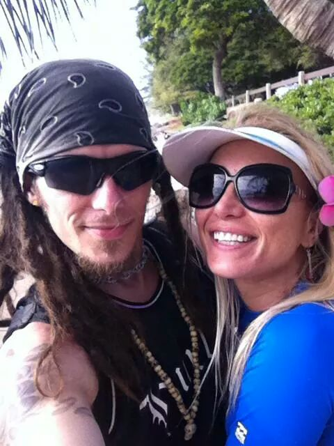 Jennifer Banko on Maui with Niklas Sadecky